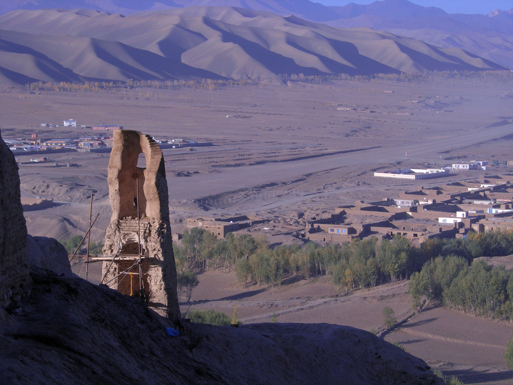 Historical reconstuction work. More from Afghanistan on my site contained in these posts. CC